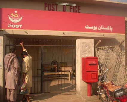 It is Post Office in SIllanwali.